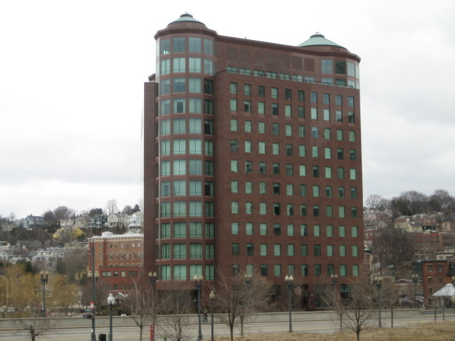 One Citizens Plaza in Providence, RI. Taken by user: ctman987 with permission.